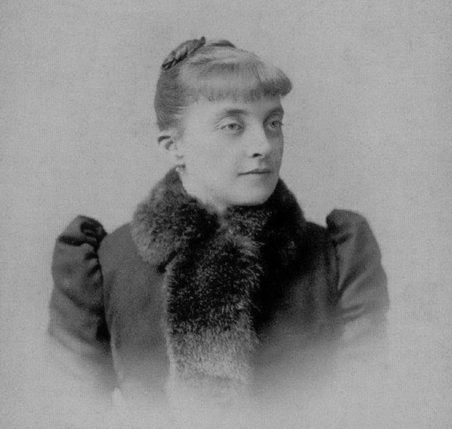 Olimpia Woynillowicz (1861-1945), Edward Woynillowicz's wife. Photoed before 1914 AD